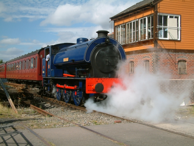 Chasewater Heaths Station